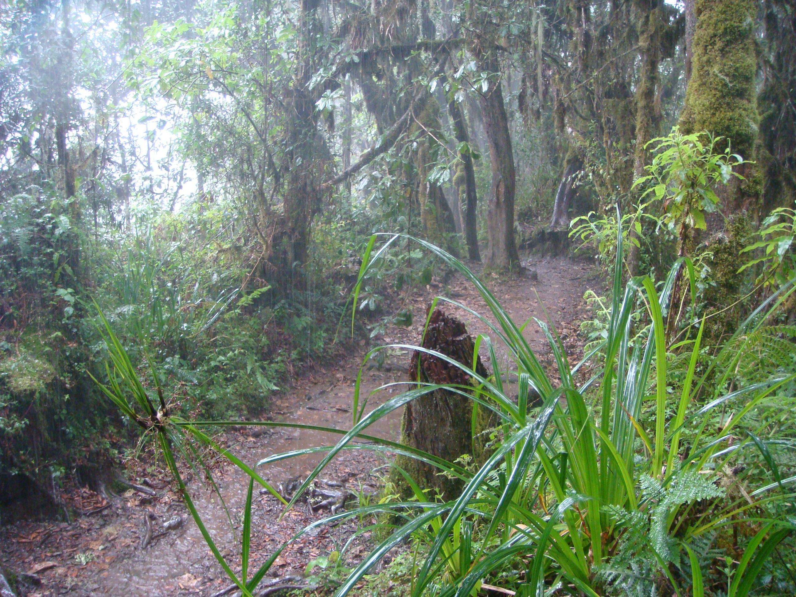 Torrential rain and hail on the first day climbing